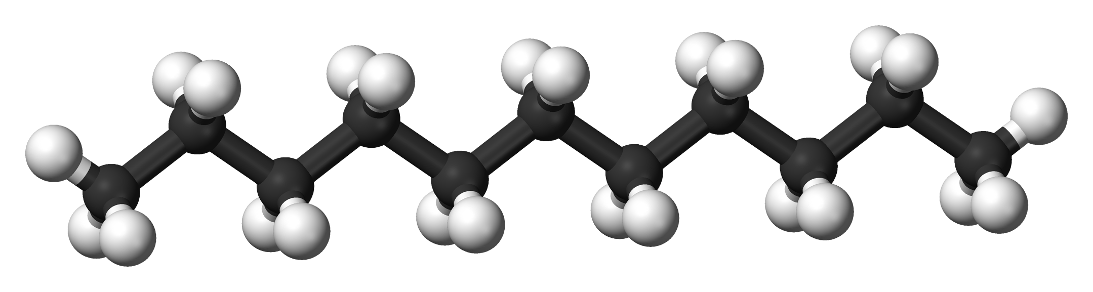 Ball and stick model of the undecane molecule.